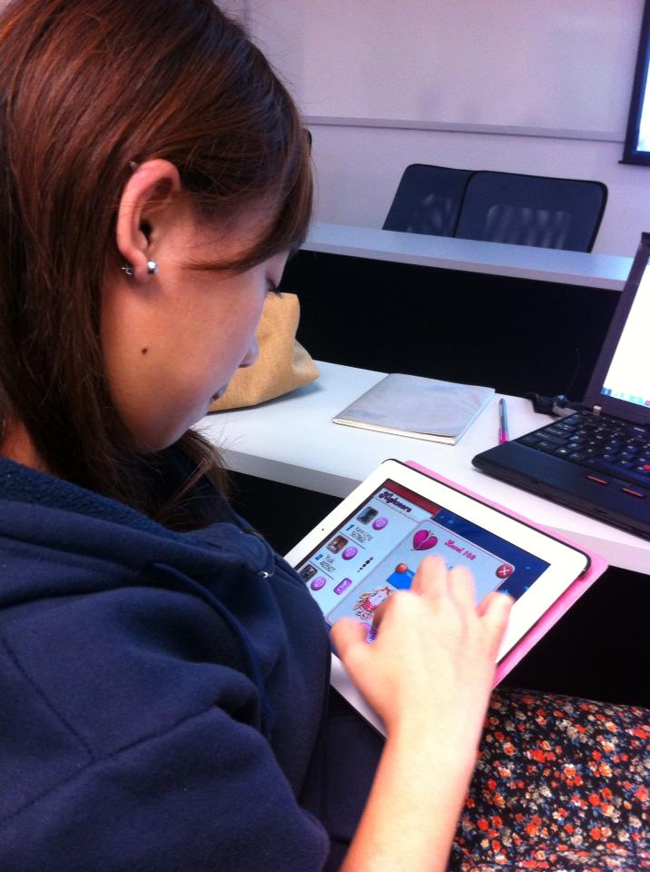 Neck pain